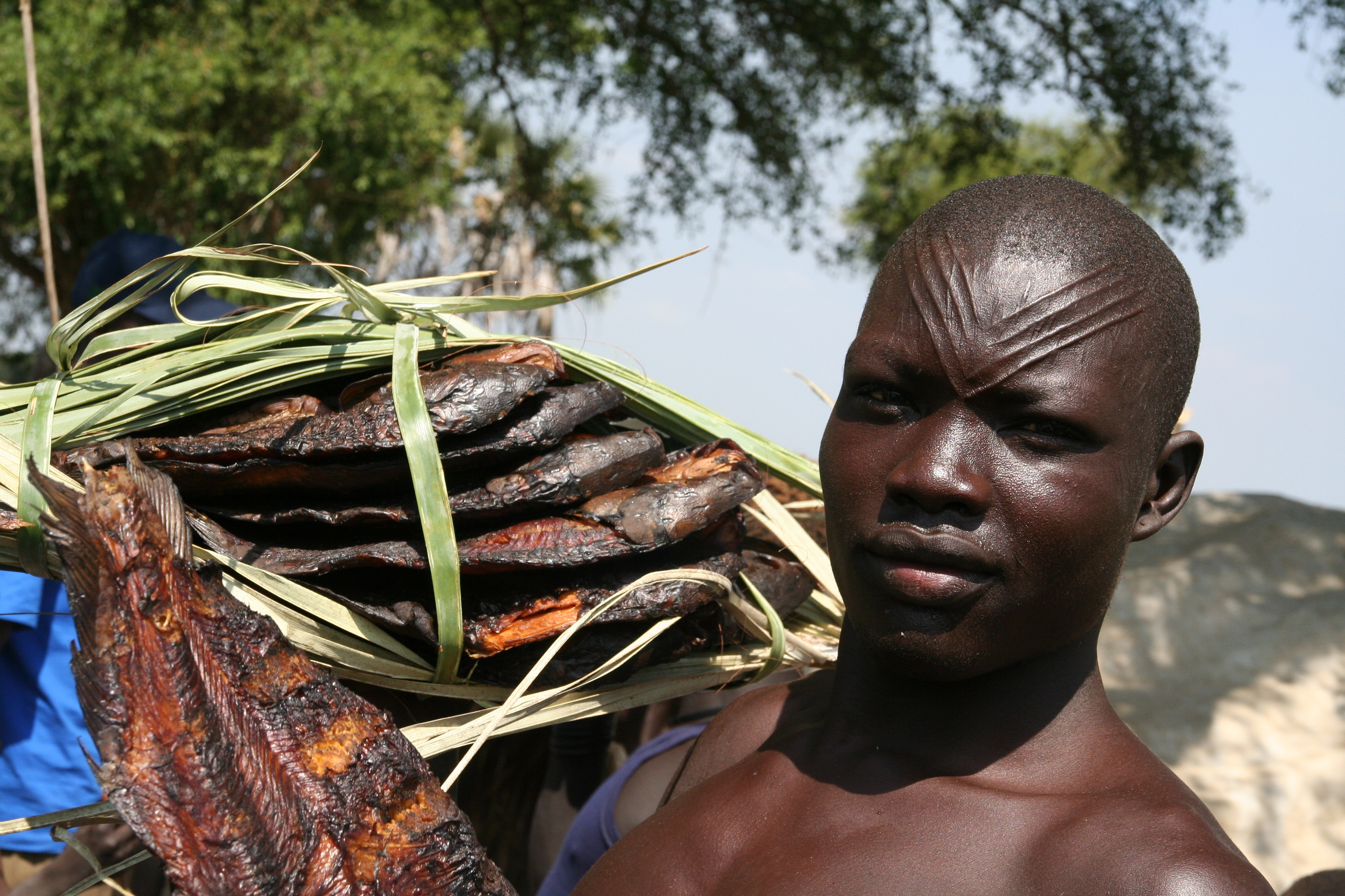 A Mundari fisherman carrying smoked fish in Terekeka, Central Equatoria State.